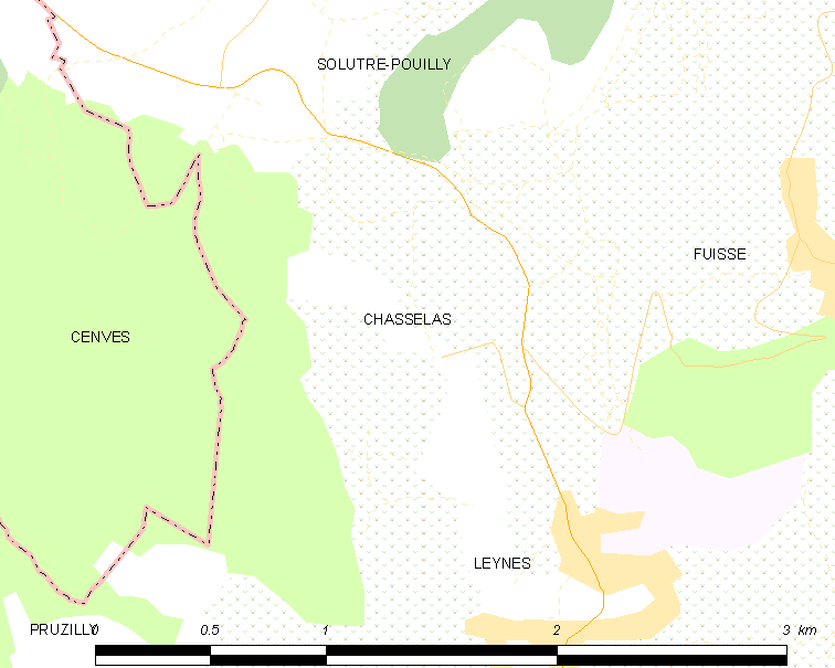 Map of French municipality